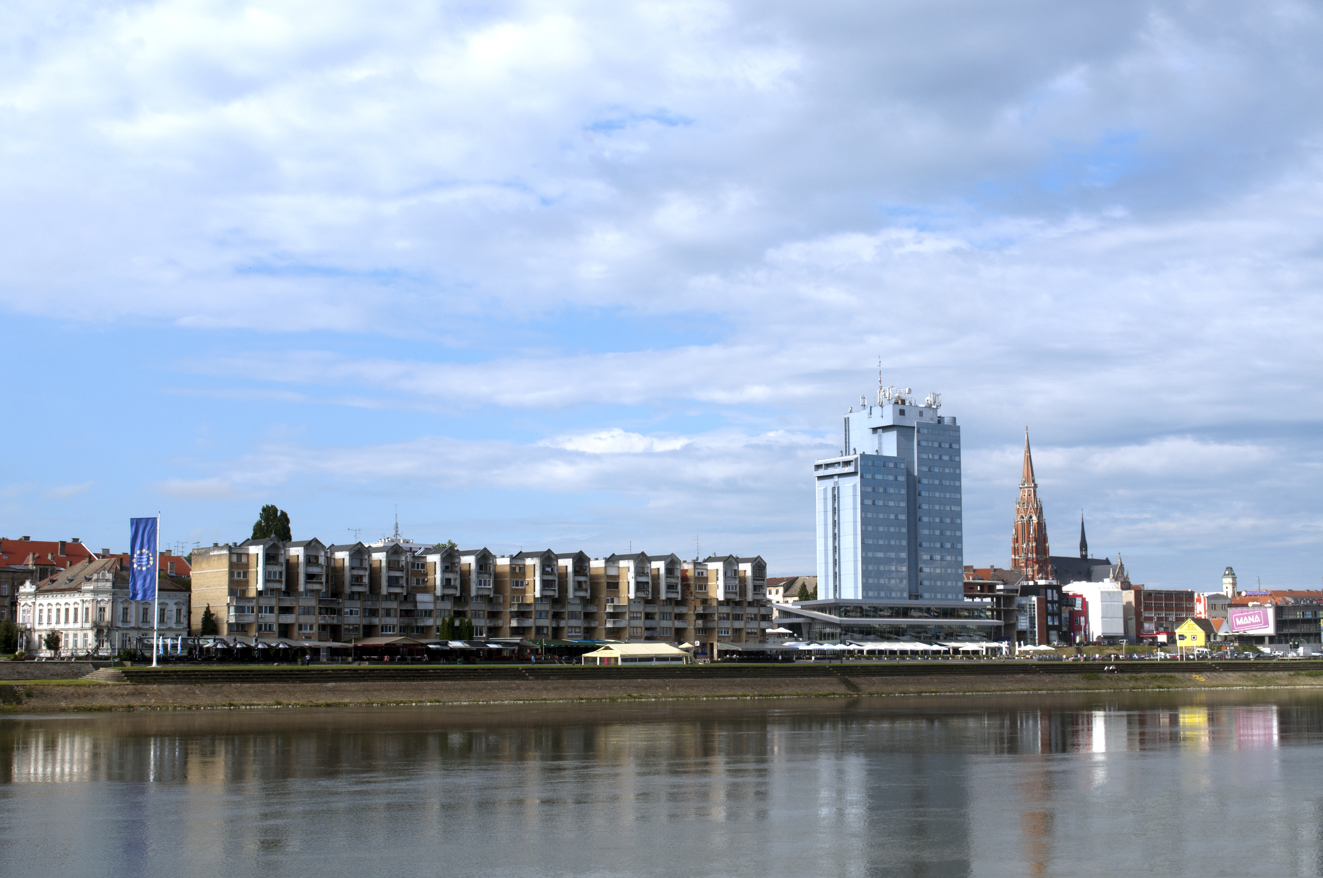 view from river Drava